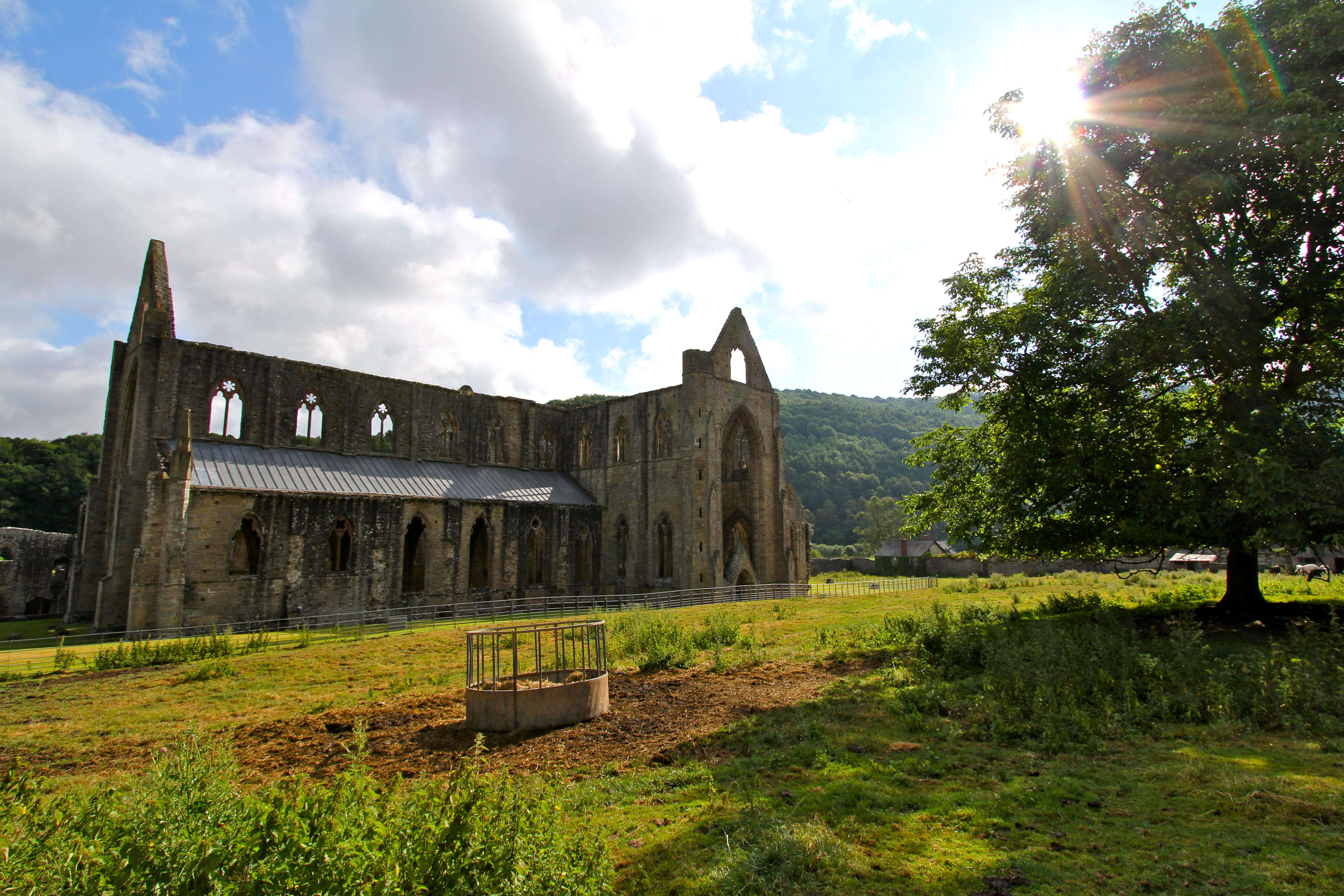 Abbey Church of St Mary (Tintern Abbey) including monastic buildings